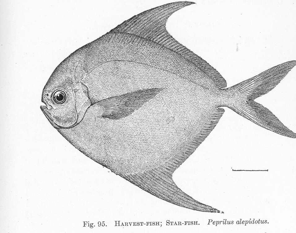 Harvest-Fish; Star-Fish. Peprilus alepidotus Subject: Perciformes, Peprilus Tag: Fish